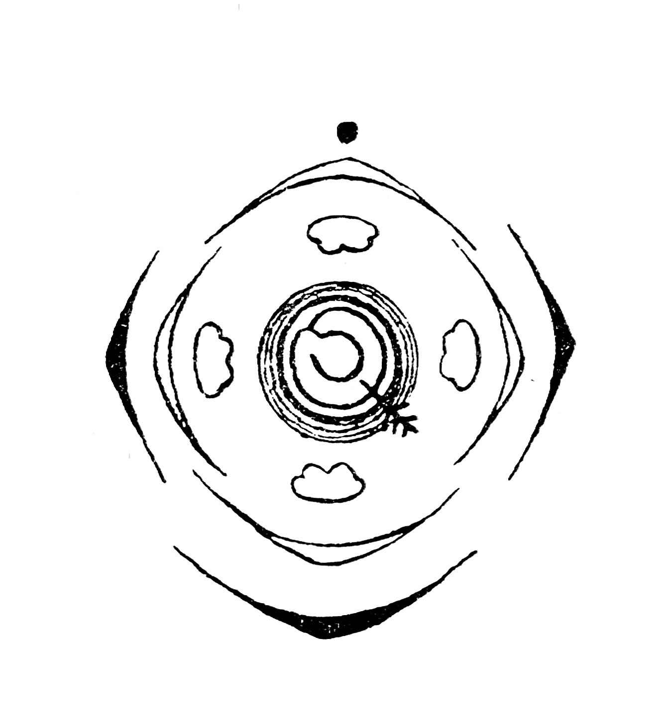 Diagram of a flower of Sanguisorba officinalis (Rosaceae)